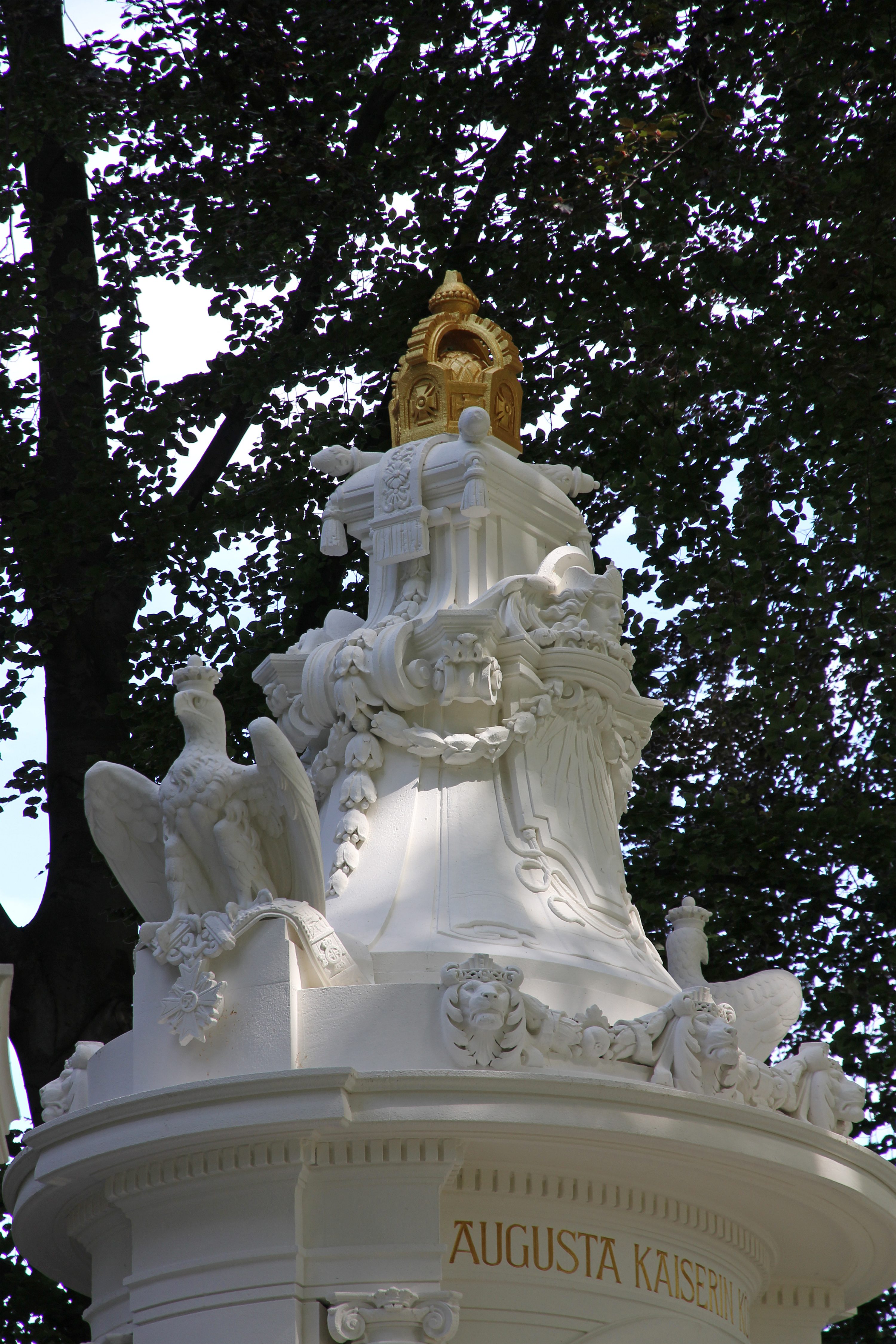 Augusta-Monument in the rhine park of Koblenz